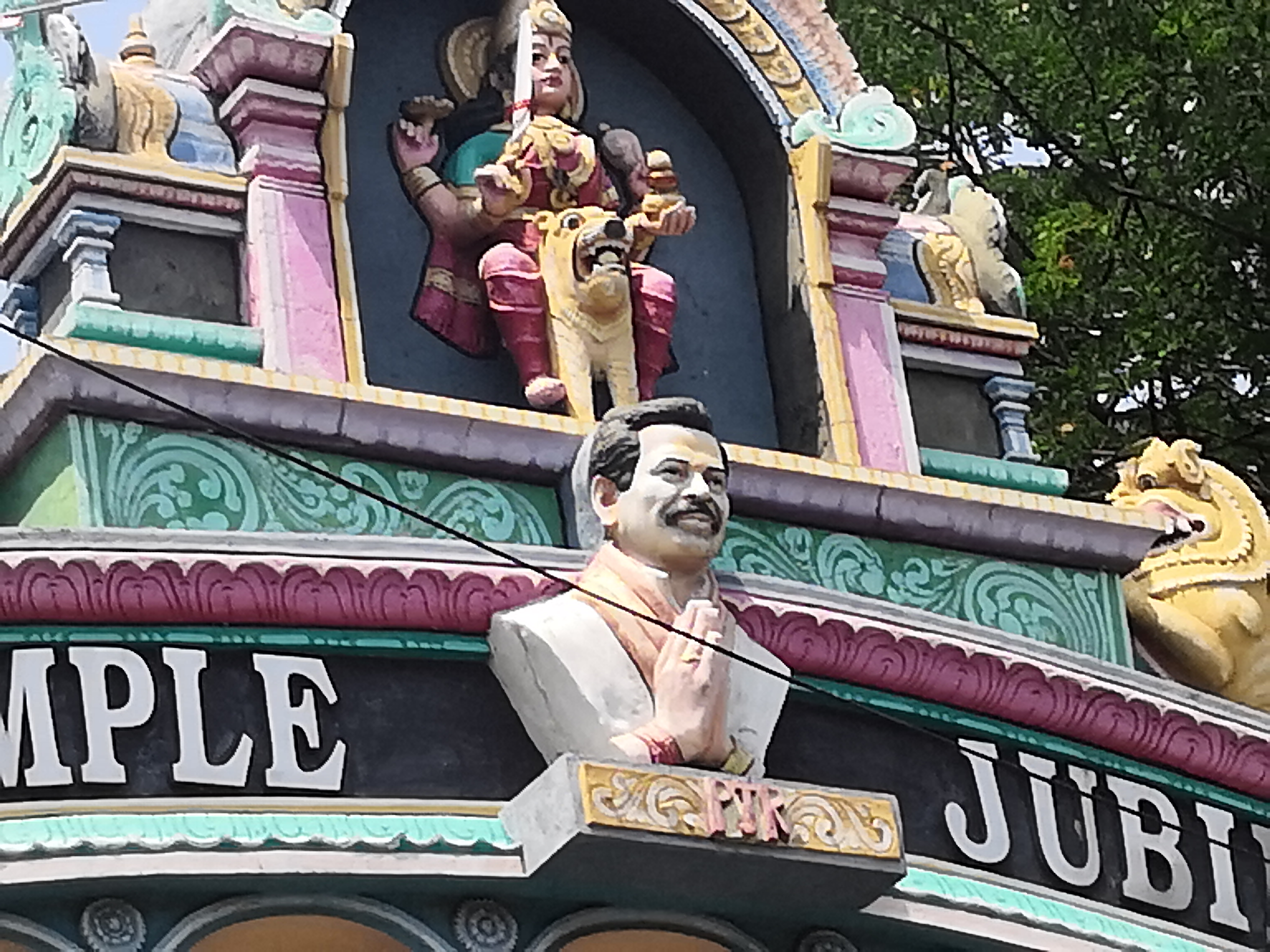 P Janardhan Reddy bust statue in Peddamma temple, Jublee Hills, Hyderabad